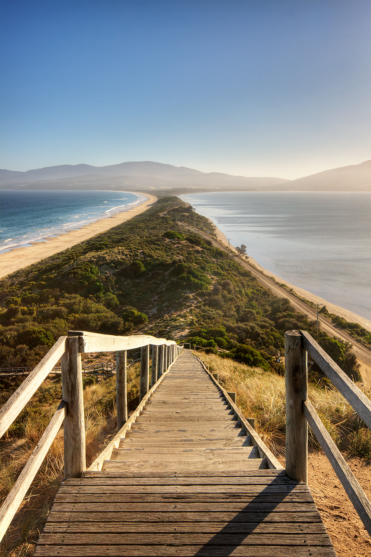 The Neck, Bruny Island, Tasmania, Australia.